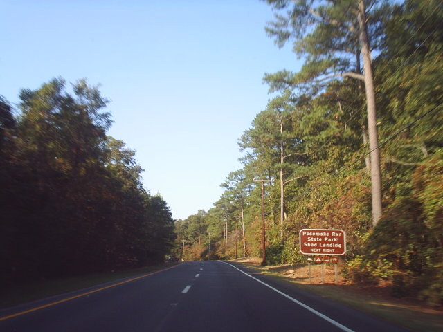 Southbound U.S. Route 113 approaching the entrance to the Shad Landing section of Pocomoke River State Park in Worcester County, Maryland